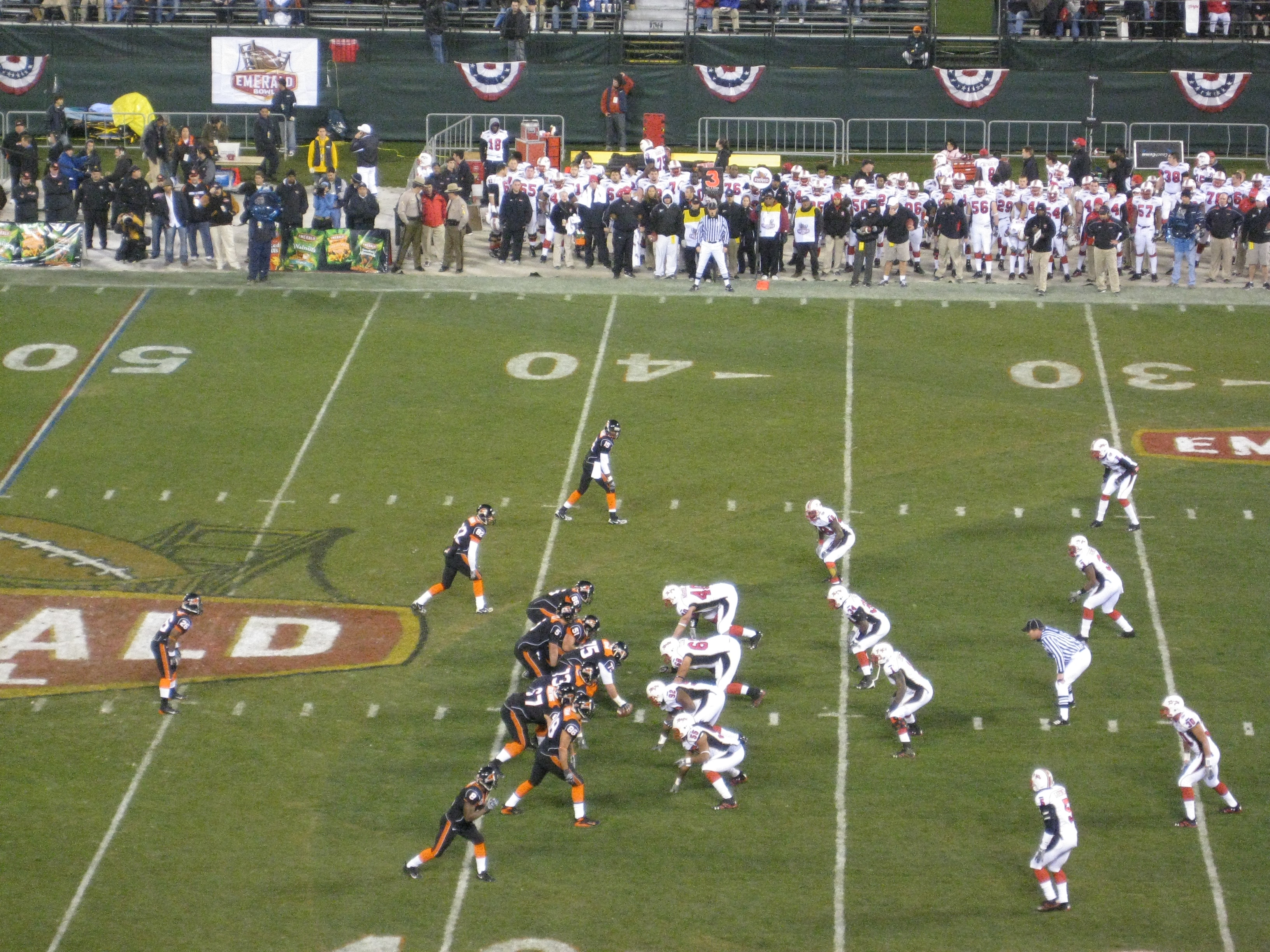 The Maryland Terrapins and Oregon State Beavers meet at the line of scrimmage in the 2007 Emerald Bowl.